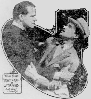 Newspaper advertisement for the American romantic comedy Money to Burn (1922) with William Russell and Otto Matieson, on page 8 of the June 24, 1922 Duluth Herald.